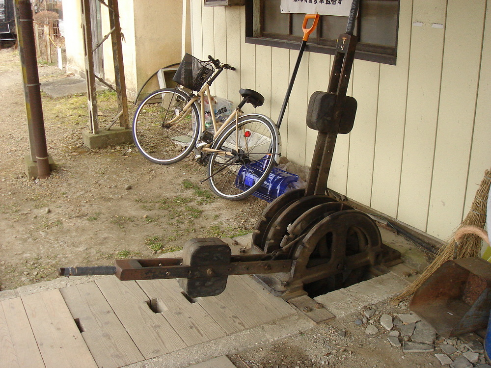 Hand-operated point levers at Wakayanagi Station